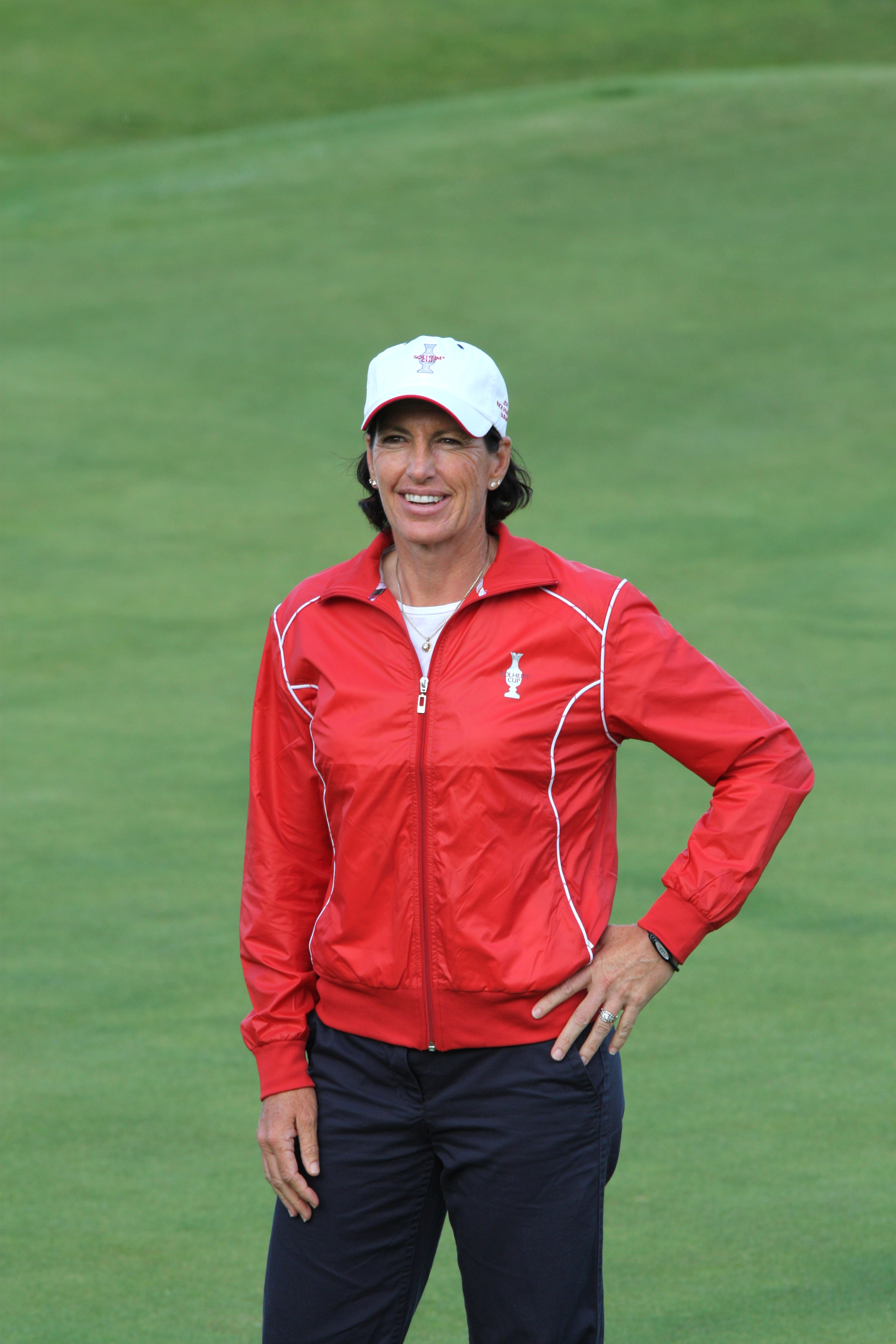 LYTHAM ST ANNES, UNITED KINGDOM - AUGUST 02: Juli Inkster of USA, member of the USA Solheim Cup Team, posing for a photograph after announcement of Solheim Cup teams, which followed final round of the 2009 Ricoh Women's British Open held at Royal Lytham & St Annes on August 2, 2009 in Lytham St Annes, England. (Photo by Wojciech Migda)